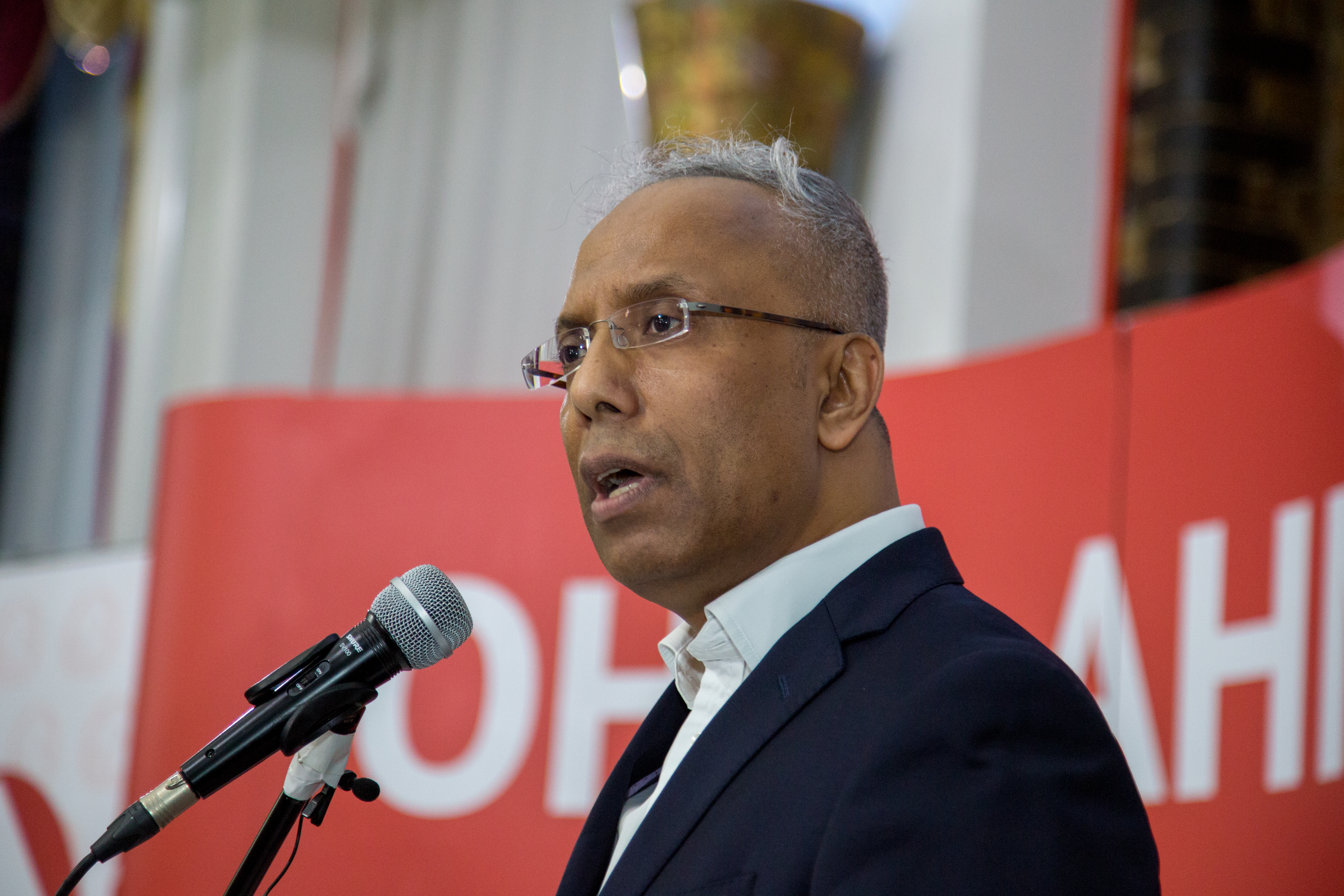 Lutfur Rahman speaking at the launch of the Aspire Party.